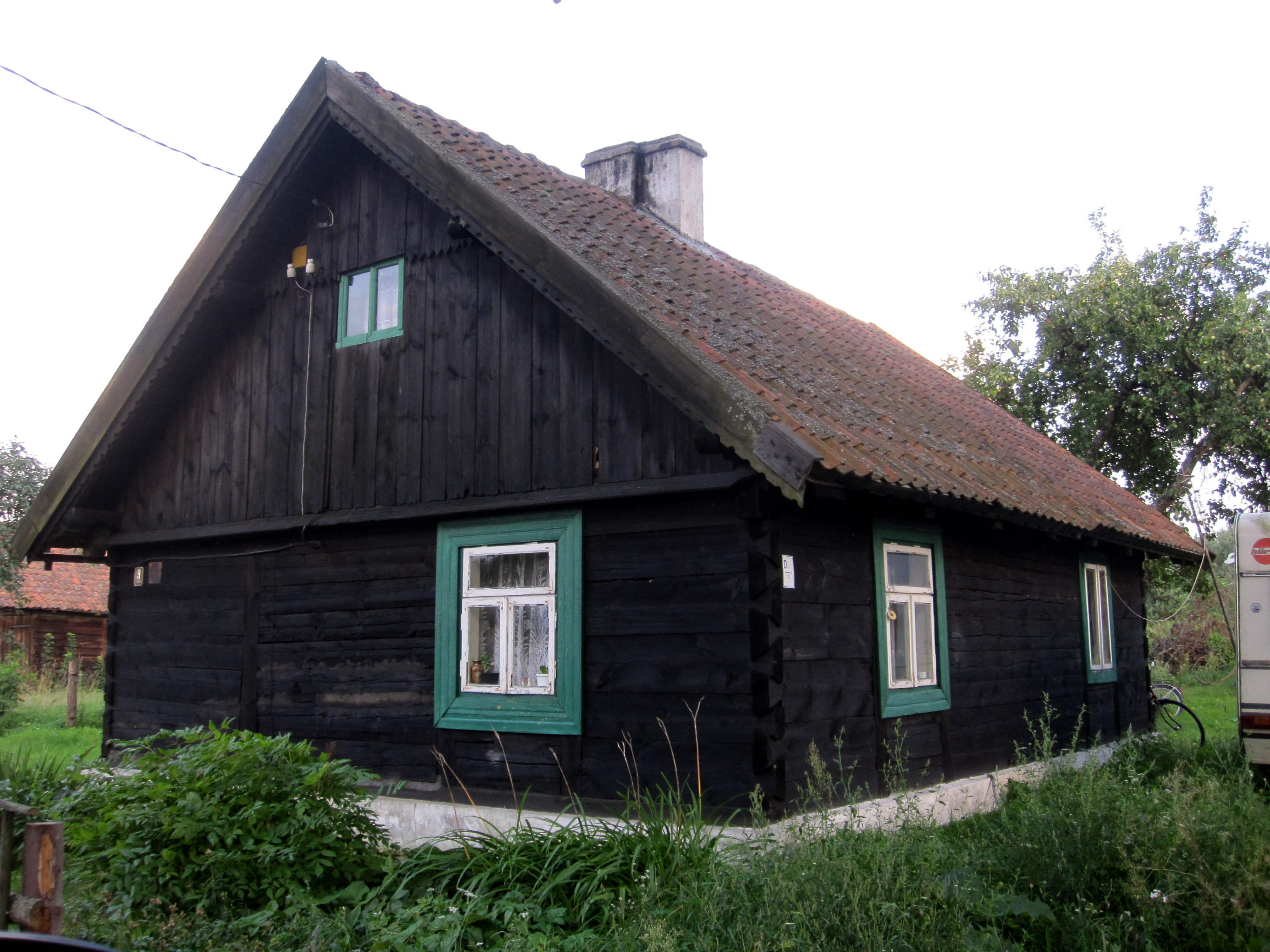 Building in Zyzdrojowy Piecek